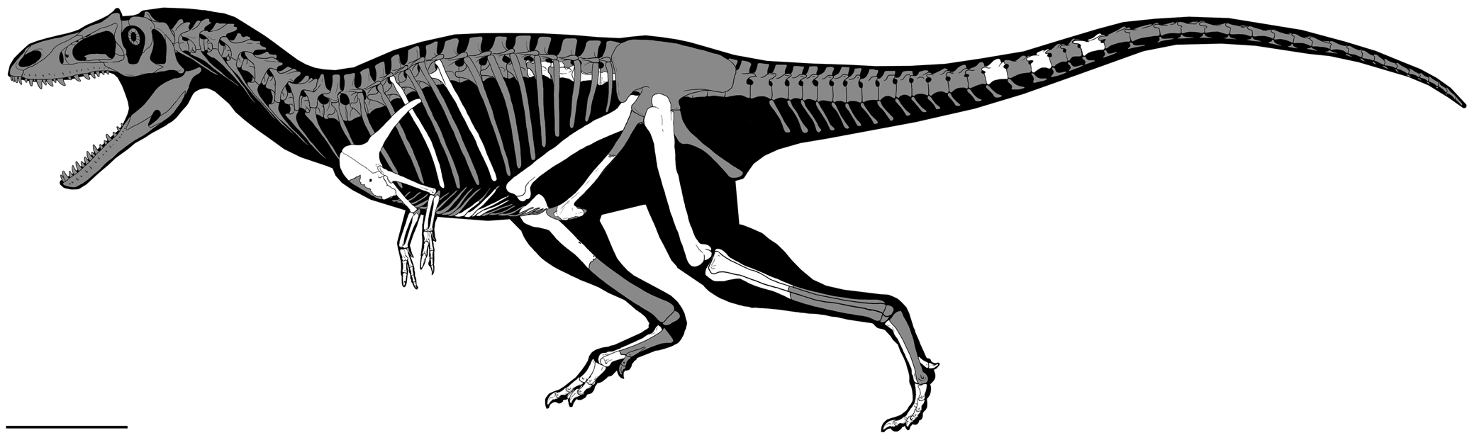 Skeletal reconstruction of Gualicho shinyae showing recovered elements in white and missing elements in grey shading. Artwork by J. González.